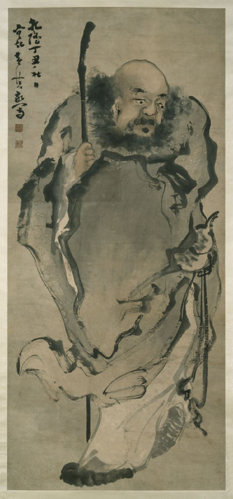 This painting depicts the immortal Li Tieguai (李鐵拐).